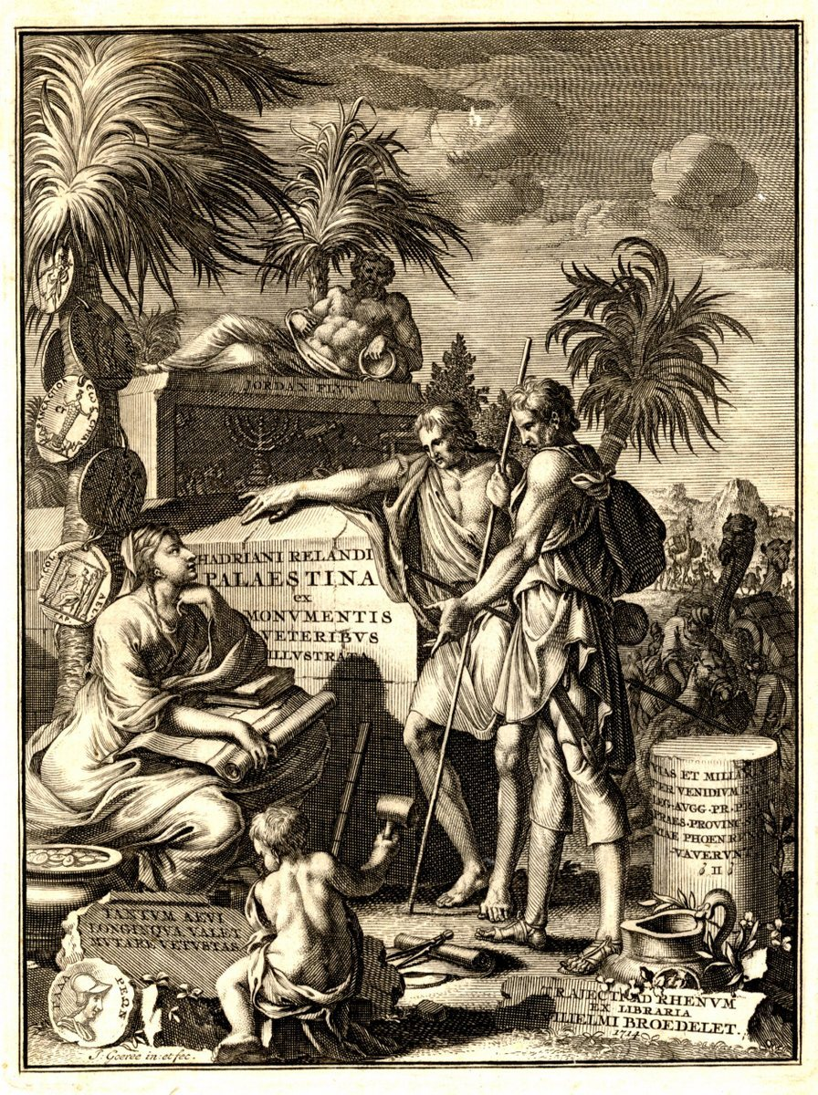 Frontispiece of Adriaan Reland's Palaestina ex monumentis veteribus illustrata